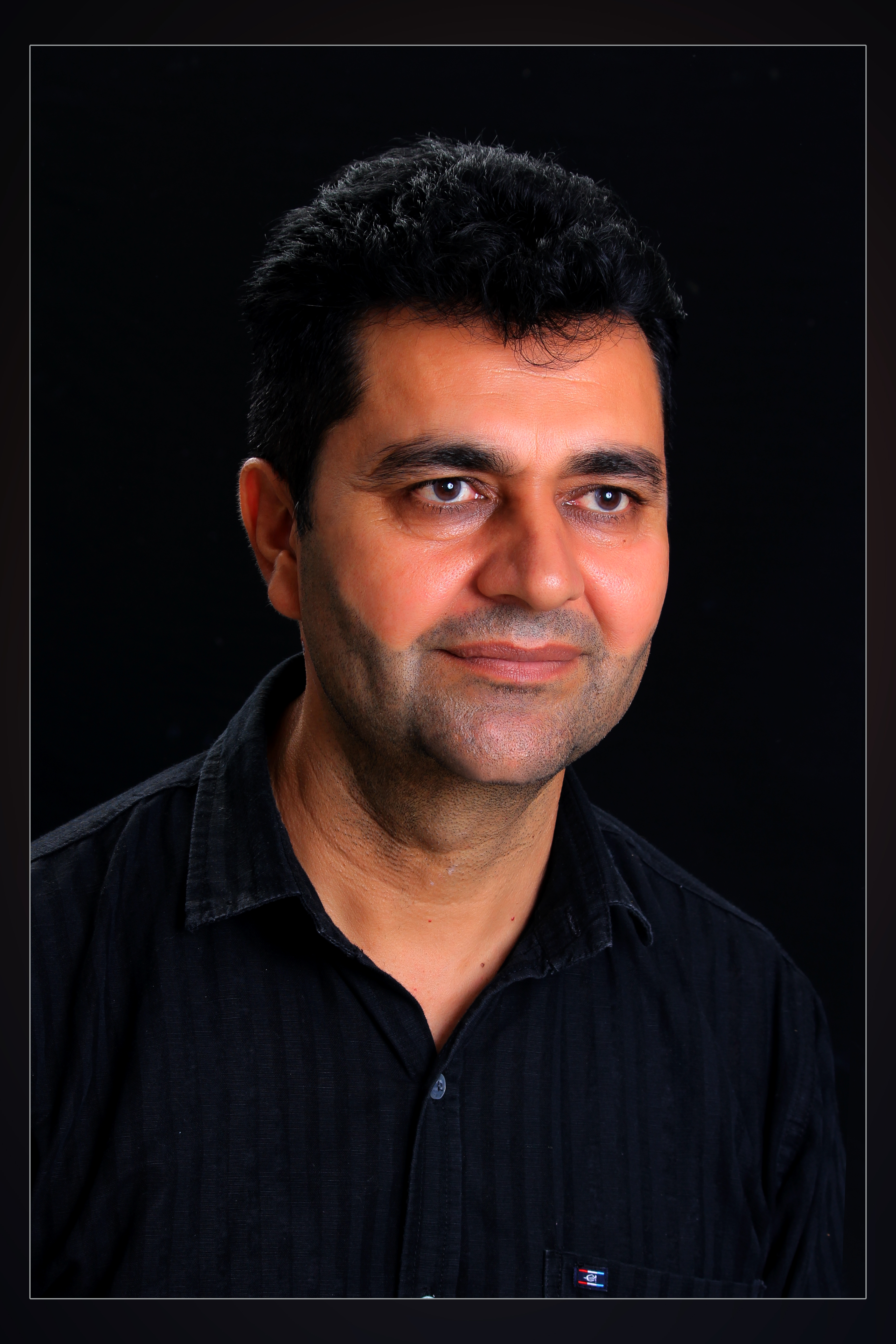 Jatinder Haans Portrait